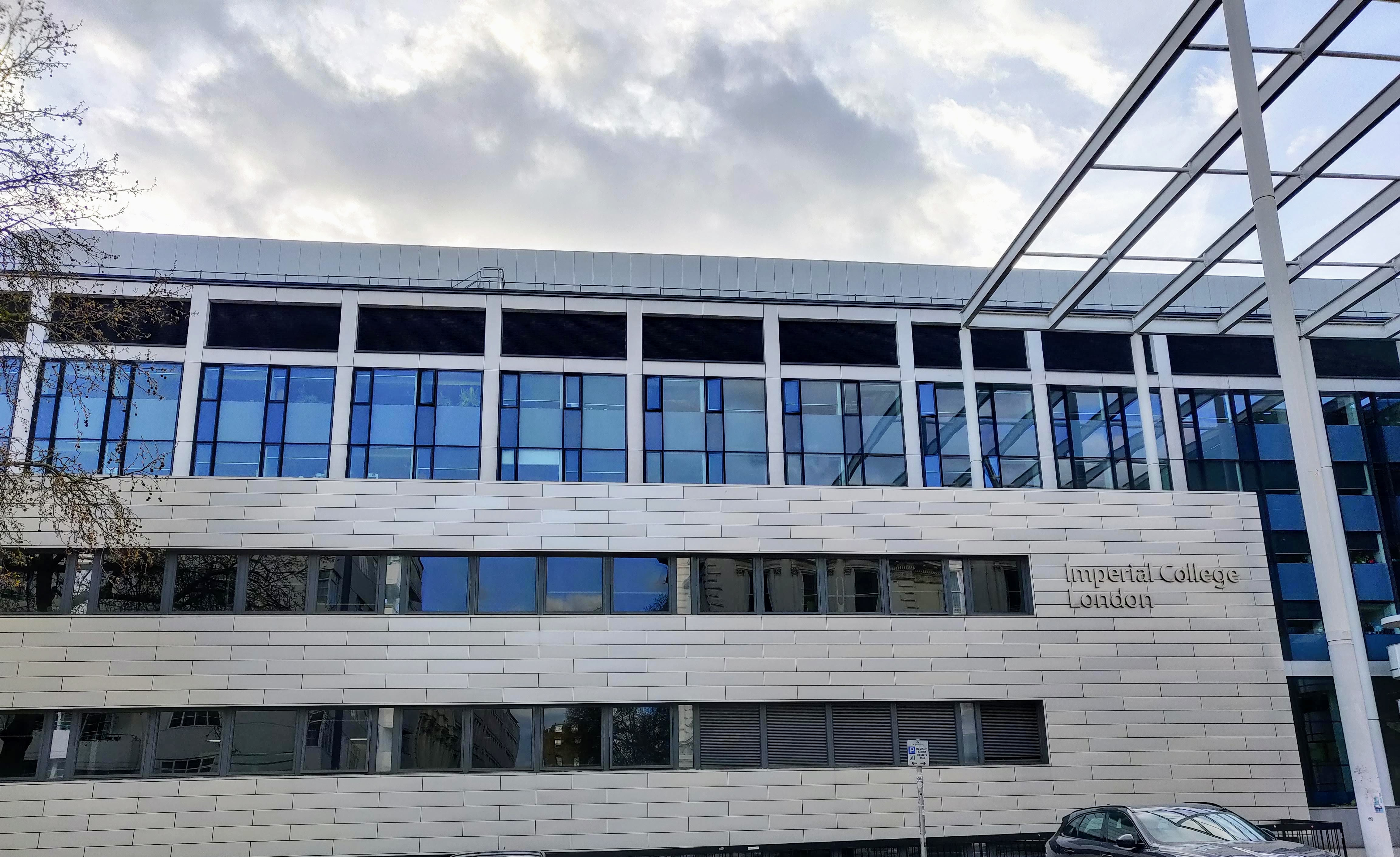 Named after the former constituent college, the City and Guilds Building is home to the Department of Mechanical Engineering. The front side (depicted) is along Exhibition Road, next to the main entrance to the college.